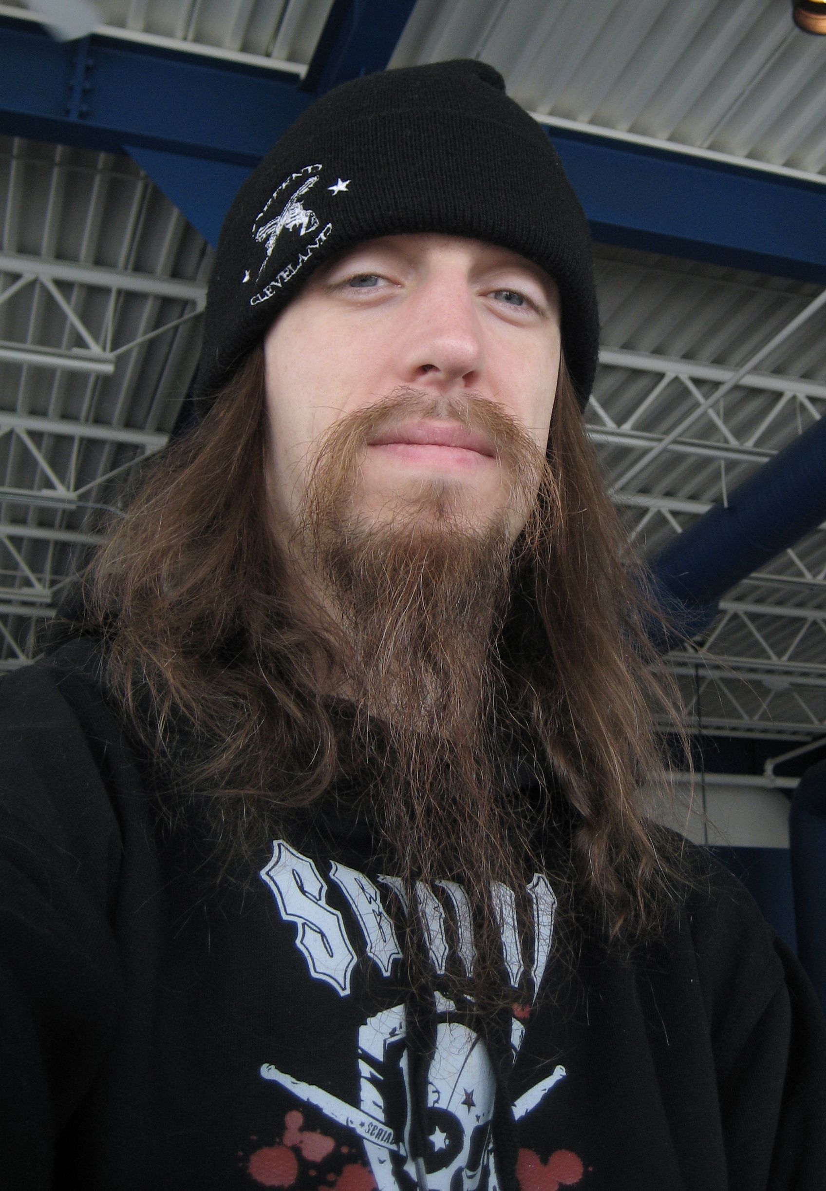 Soilwork drummer Dirk Verbeuren in February 2009